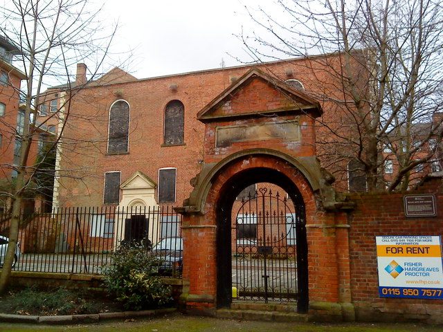 Entrance to St. Mary's Boys' School. In front of the entrance to the former St. Mary's Boys' School is the Bellar Gate Rest Garden. This Rest Garden is the site of one of the St. Mary's burial grounds. It was granted to St. Mary's Church for the sum... more